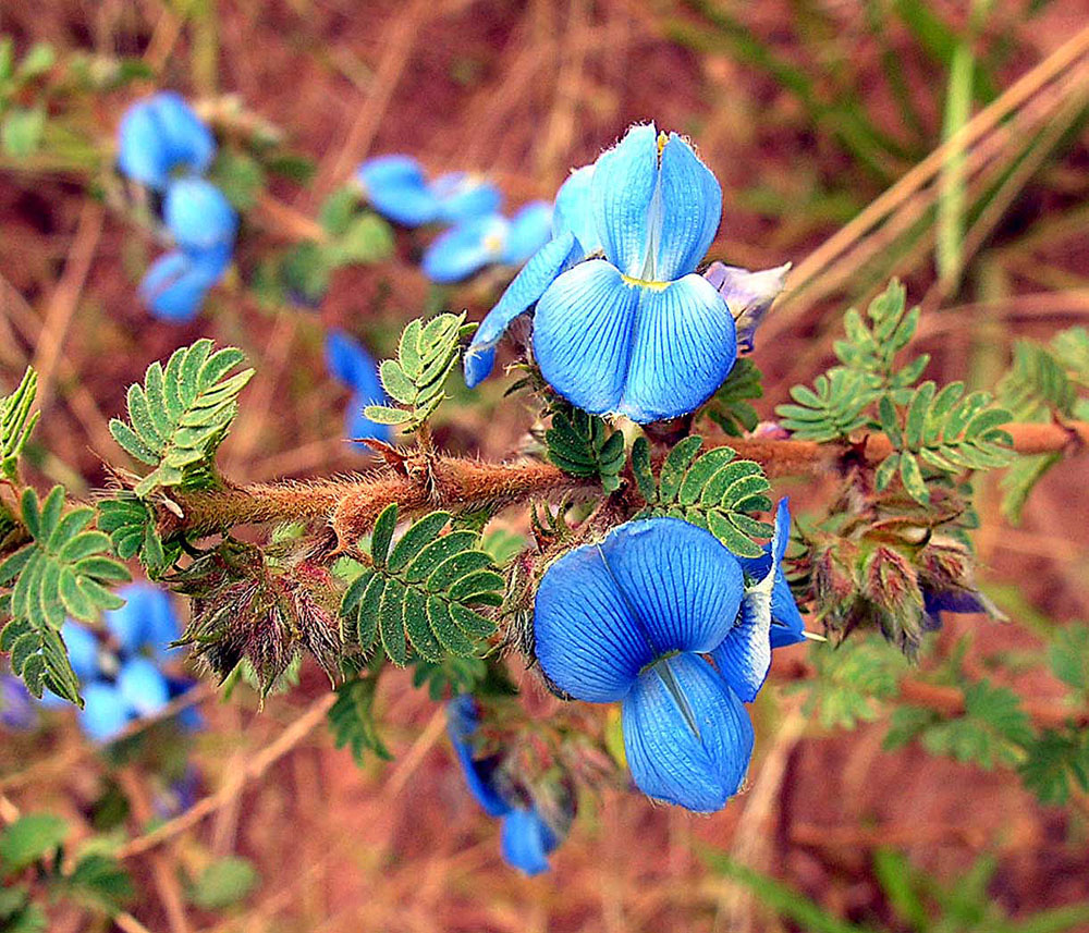 A sky-blue pea flower, native to both east and west Africa, not to mention Madagascar. Photo from the Kapeni River area of Malawi.